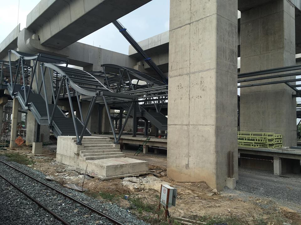 Rangsit Railway Station, Prathum Thani in 2017.